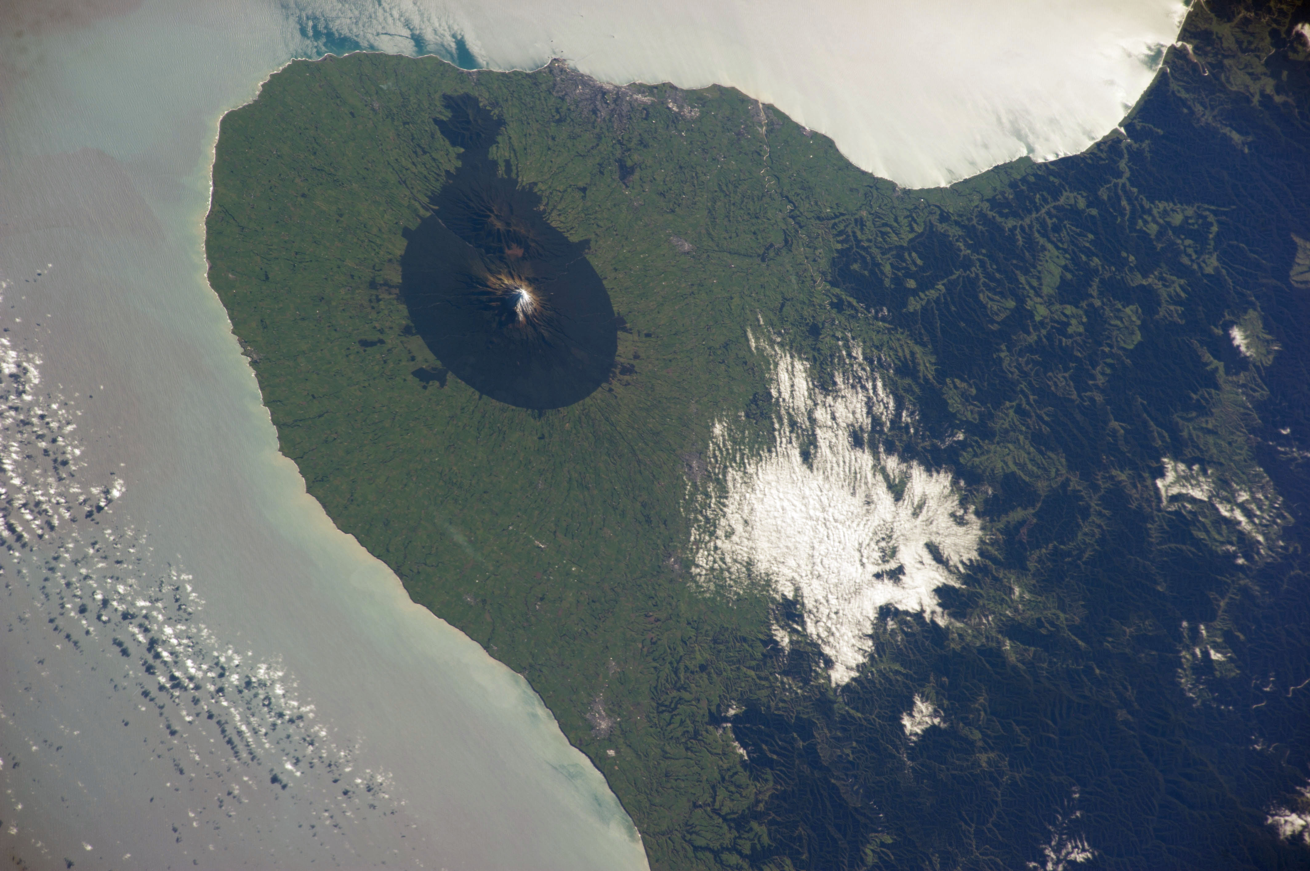 One of the Expedition 40 crew members aboard the International Space Station recorded this nearly vertical image of the Taranaki region on the west coast of New Zealand's North Island on May 31, 2014. Just above left center in the frame is Mount Egmont, an 8,261-ft. high (2,518 meters) volcano which last erupted in 1860, according to NASA scientists studying the space station imagery.